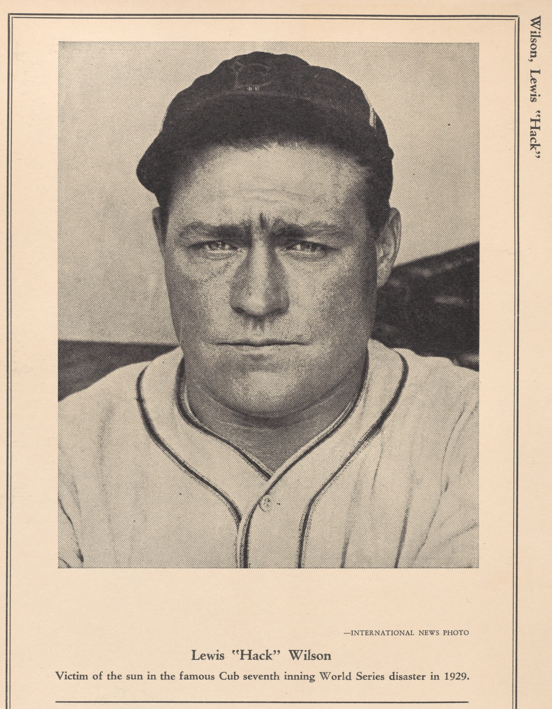 Prints; Print